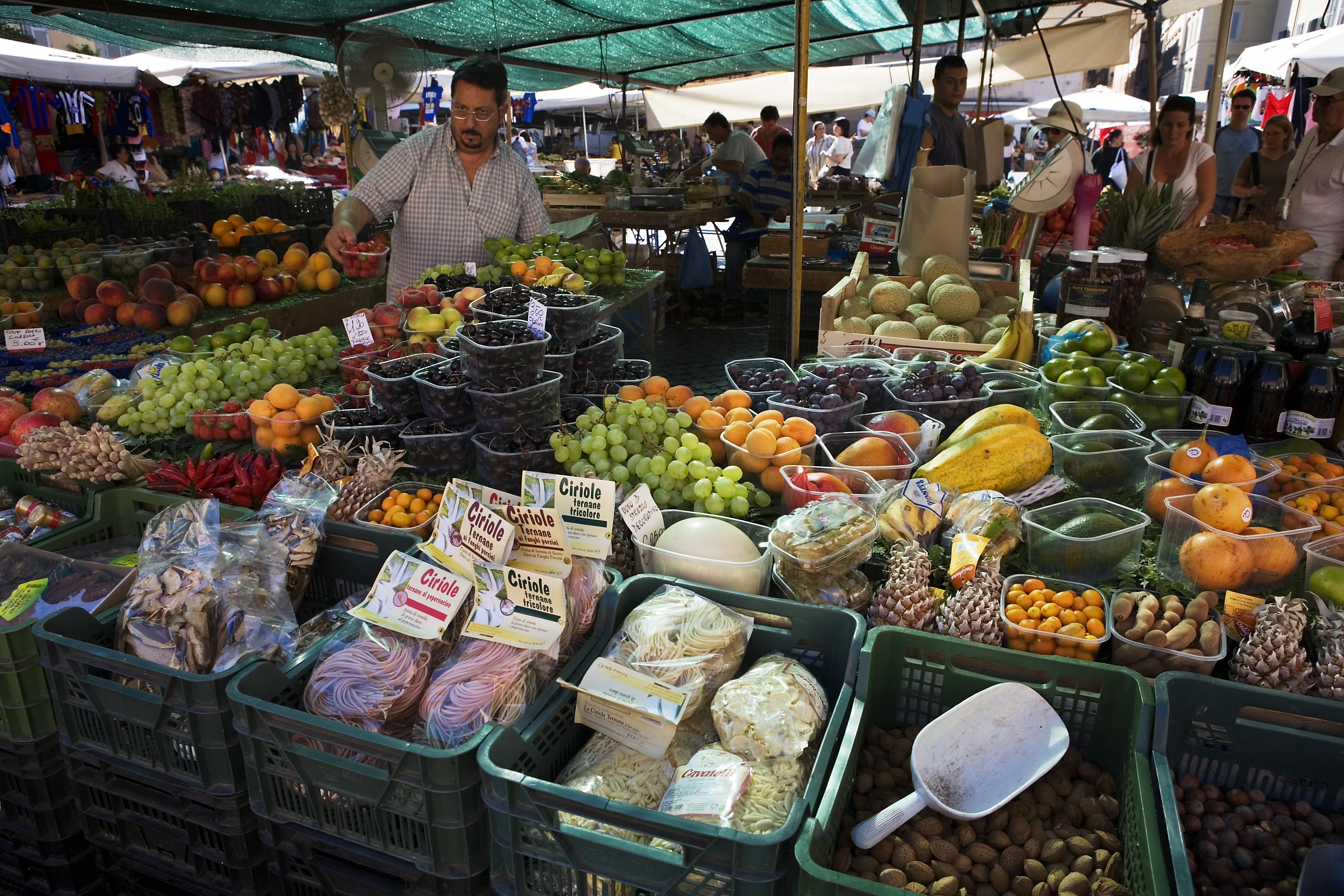 Colorful Fruits and vegetables for sale in the Mercato di Campo di Fiori Open Market, Rome, Italy